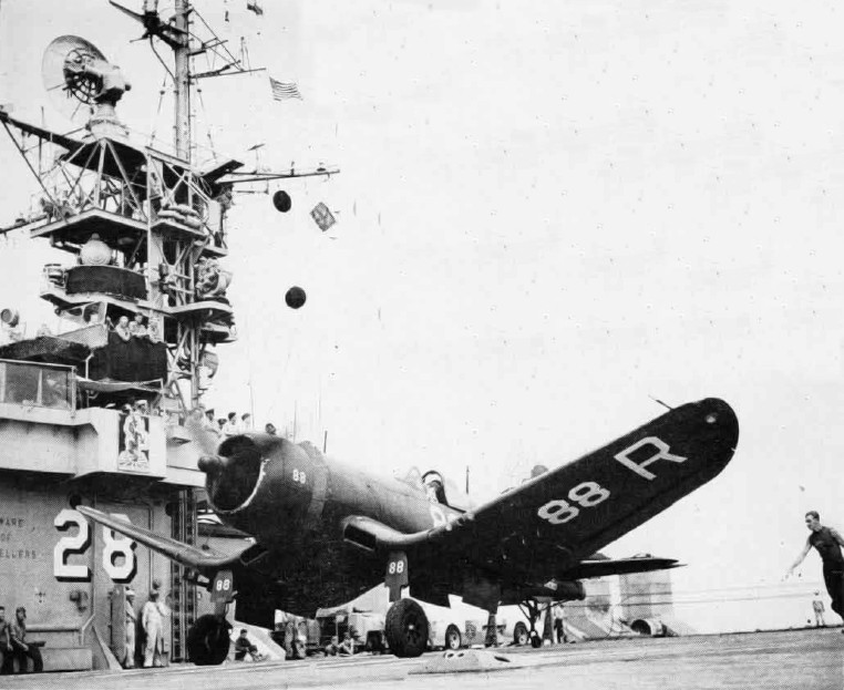 A U.S. Naval Reserve Vought F4U-1 Corsair of fighter squadron VF-68A folding its wings after landing on the training carrier USS Cabot (CVL-28) in June 1949. VF-68A was assigned to reserve Carrier Air Group 67 (CVG-67) which made a four-day cruise aboard the Cabot in June 1948 off Pensacola, Florida (USA), with 39 catapult launches and 505 landings. CVG-67 of the New York Naval Air Reserve had 62 officers and 167 enlisted men, and was equipped with 37 Corsairs, Grumman F6F-5 Hellcats, and TBM-3 Avengers.